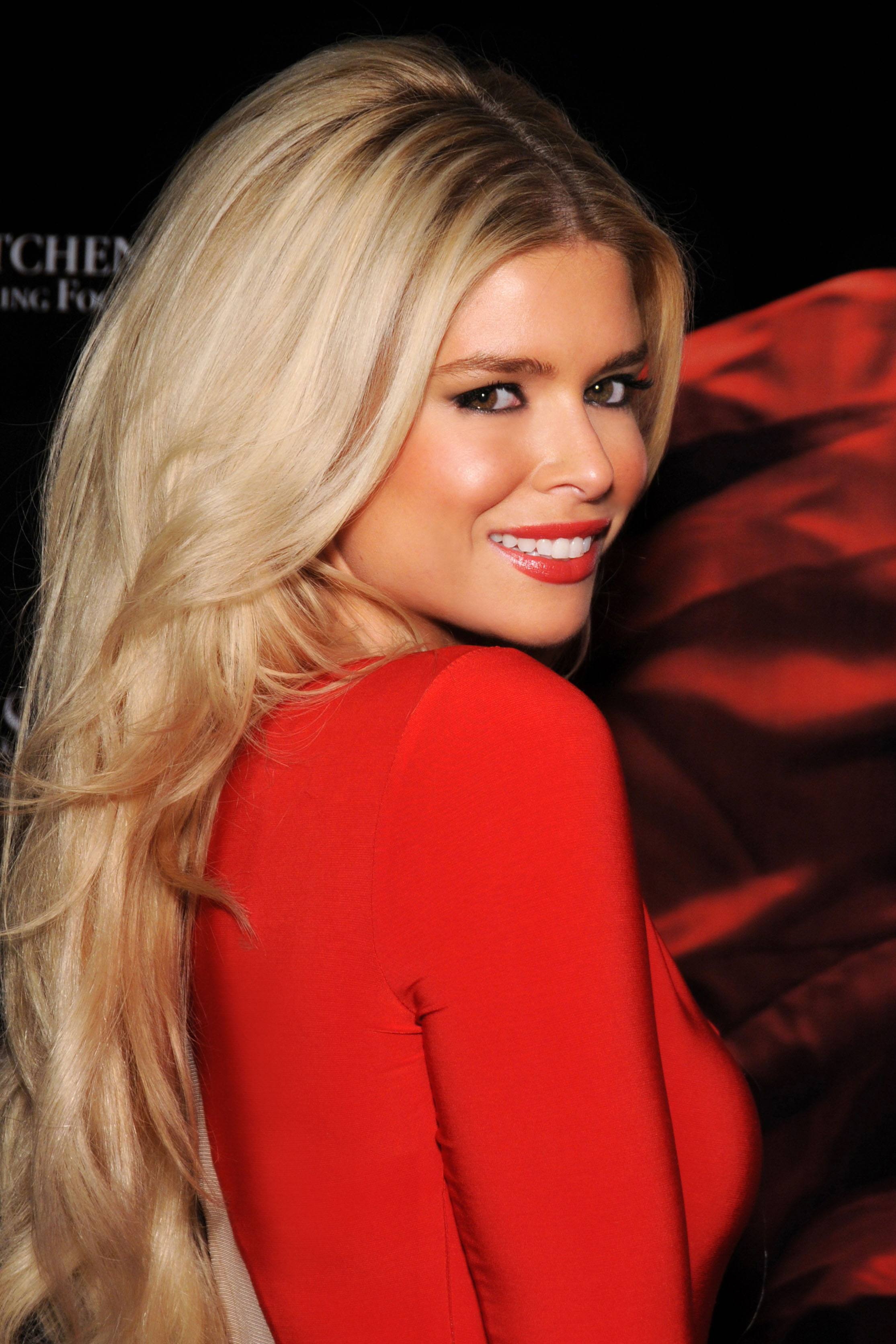 Ashley Diana Morris, Culver City, California on February 8, 2014 - Photo by Glenn Francis of